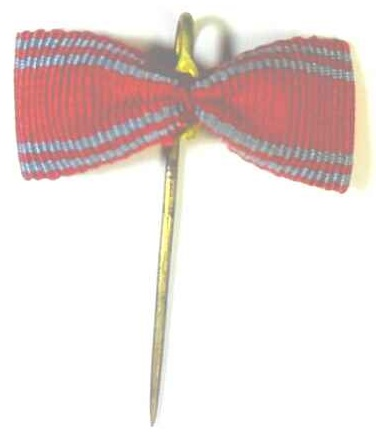 Regular membership medal ribbon of Japanese Red Cross Society.